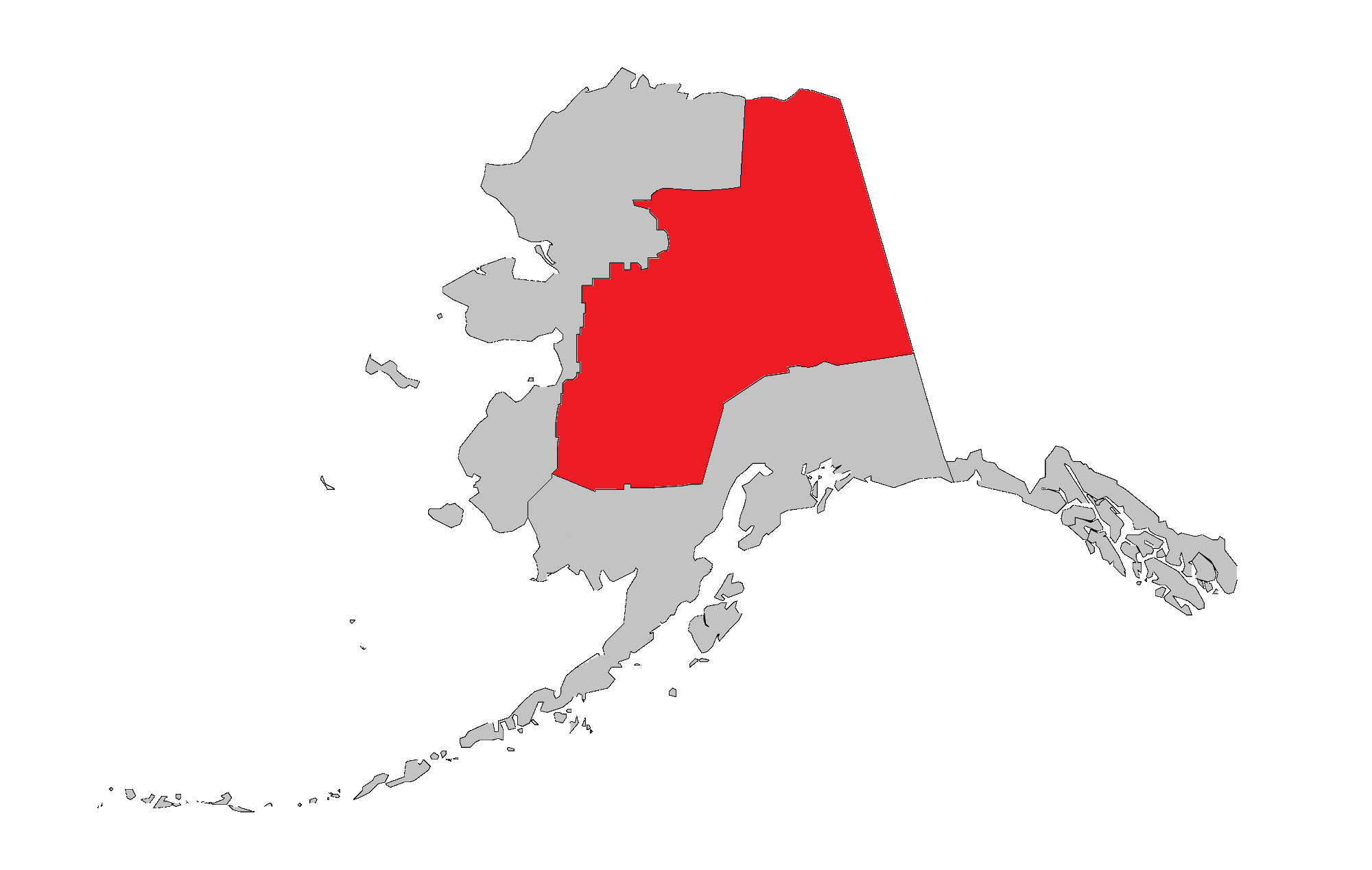 A map of the Fourth Judicial District (also refered to as Division #4) in red. Based on "Map of boroughs and census areas" av cmrivers.